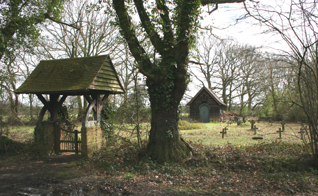 photo of Leper Cemetery in Bicknacre